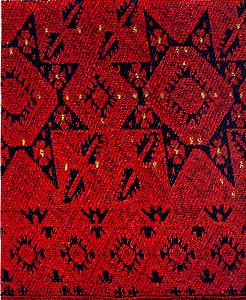 The sleeve so edna vrteshka, from the female costume for religious observances embroidered in wool using the colors: alovna, gjuvezna, black and yellow Technique: lozeno-polneto. Motifs: vrteshka, lisye, koltsa, v. Kostintsi, the Prilep Plain, late 19th century. Dim. 35 * 32 cm.